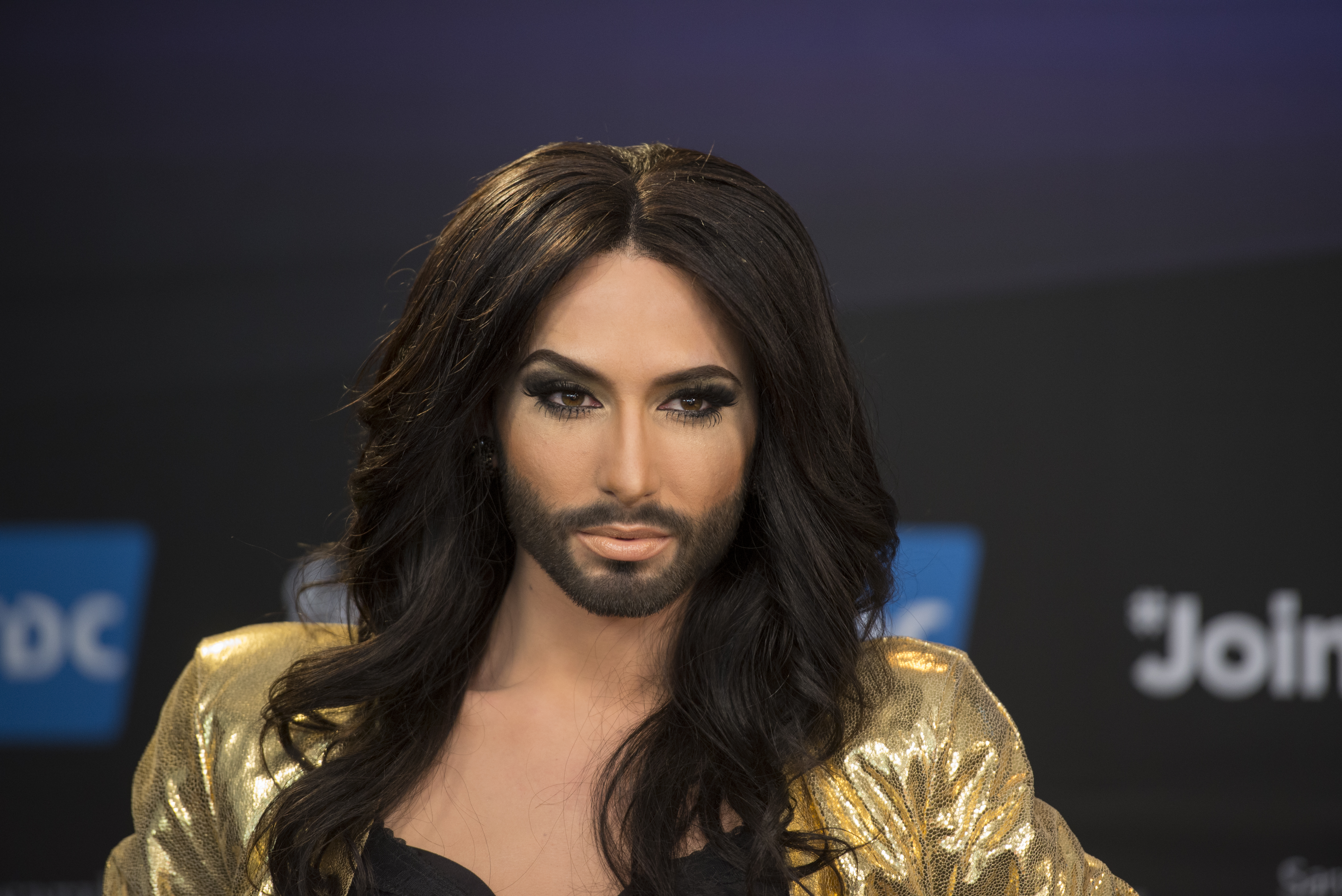 Conchita Wurst at a Meet & Greet during the Eurovision Song Contest 2014 Copenhagen. (Help translate this text)